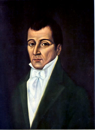 oil painting portrait of Joaquín Camacho.